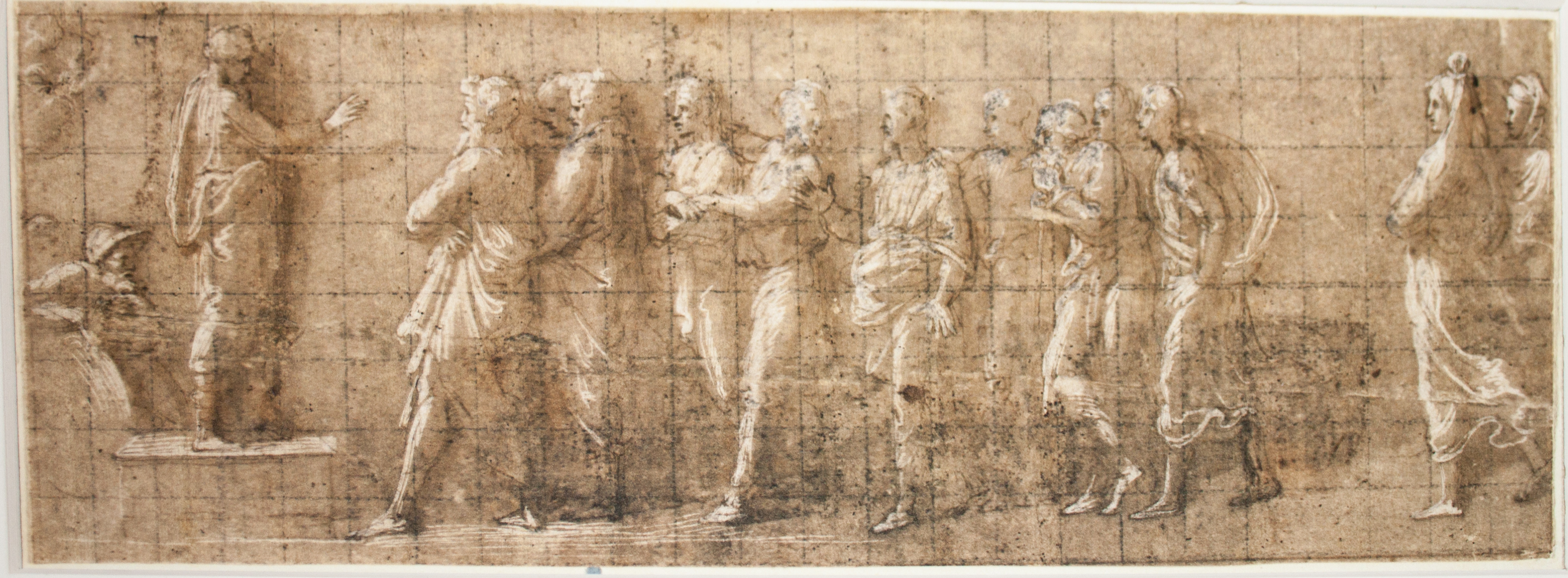 Drawing by Raffaello Sanzio in the Teylers Museum (facsimile)